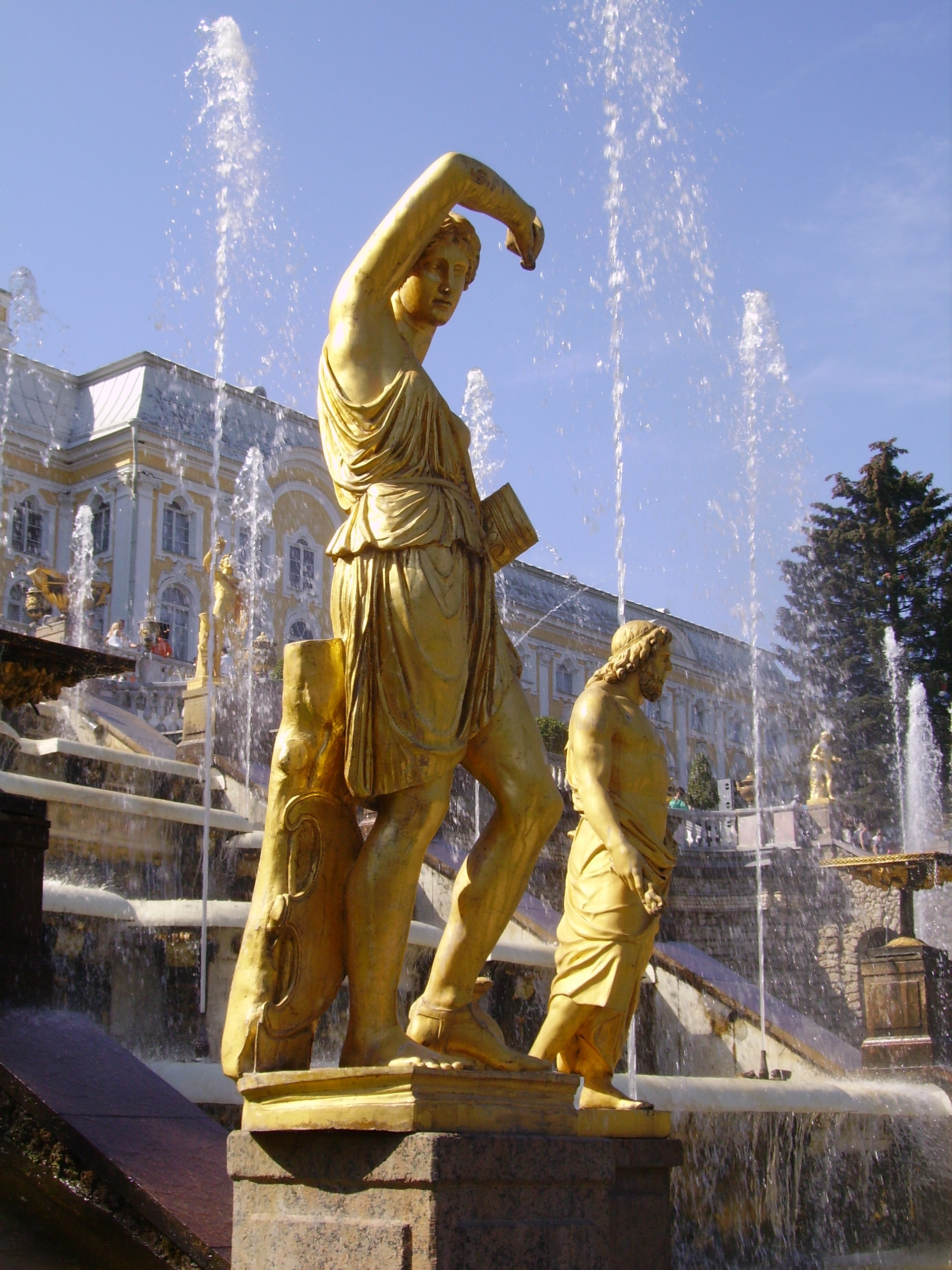 Amazone (?) - Grand Cascade of Peterhof